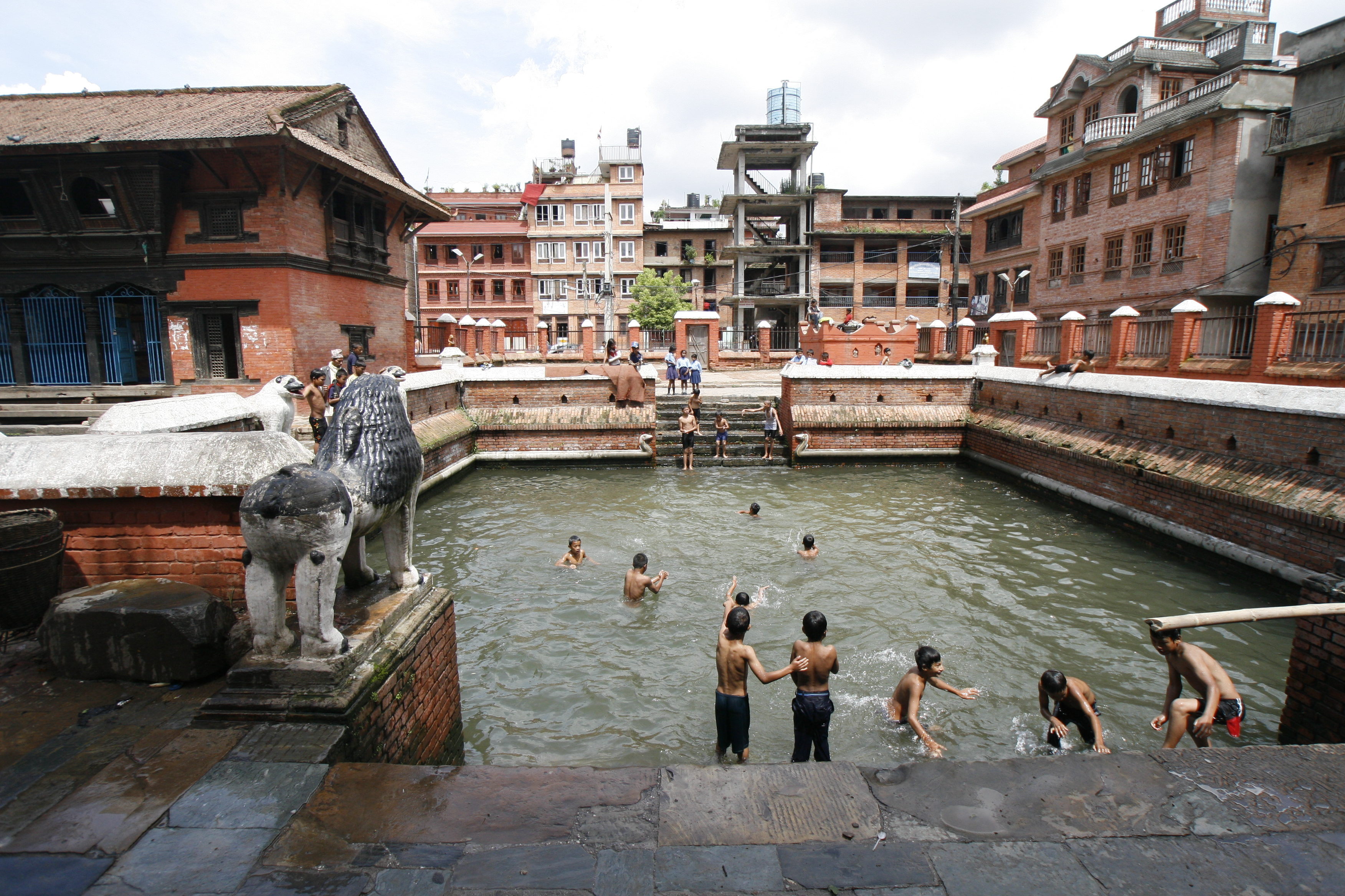 Flooded Hiti at Kumbeshwar Temple, Patan.